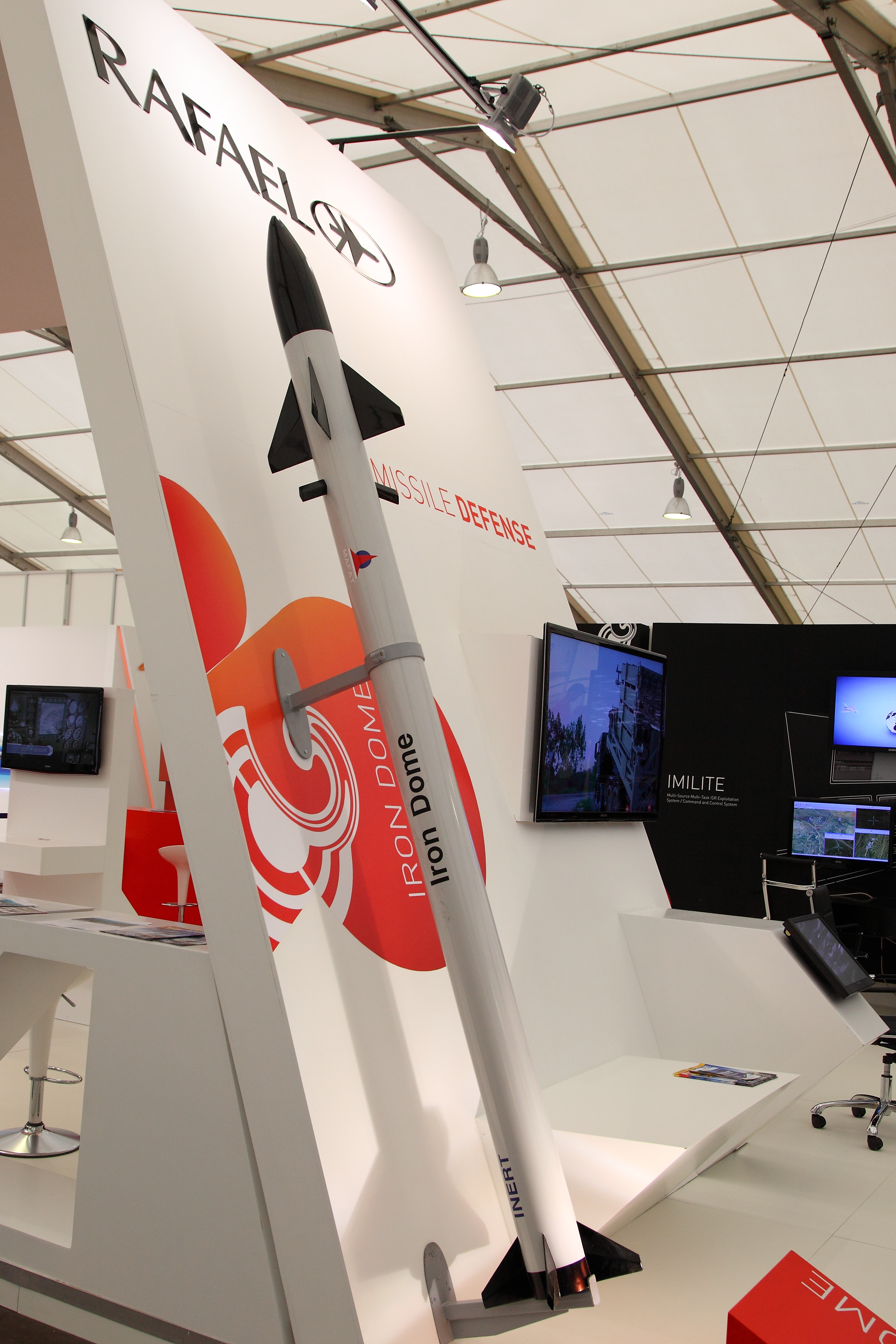 ILA Berlin Air Show 2012